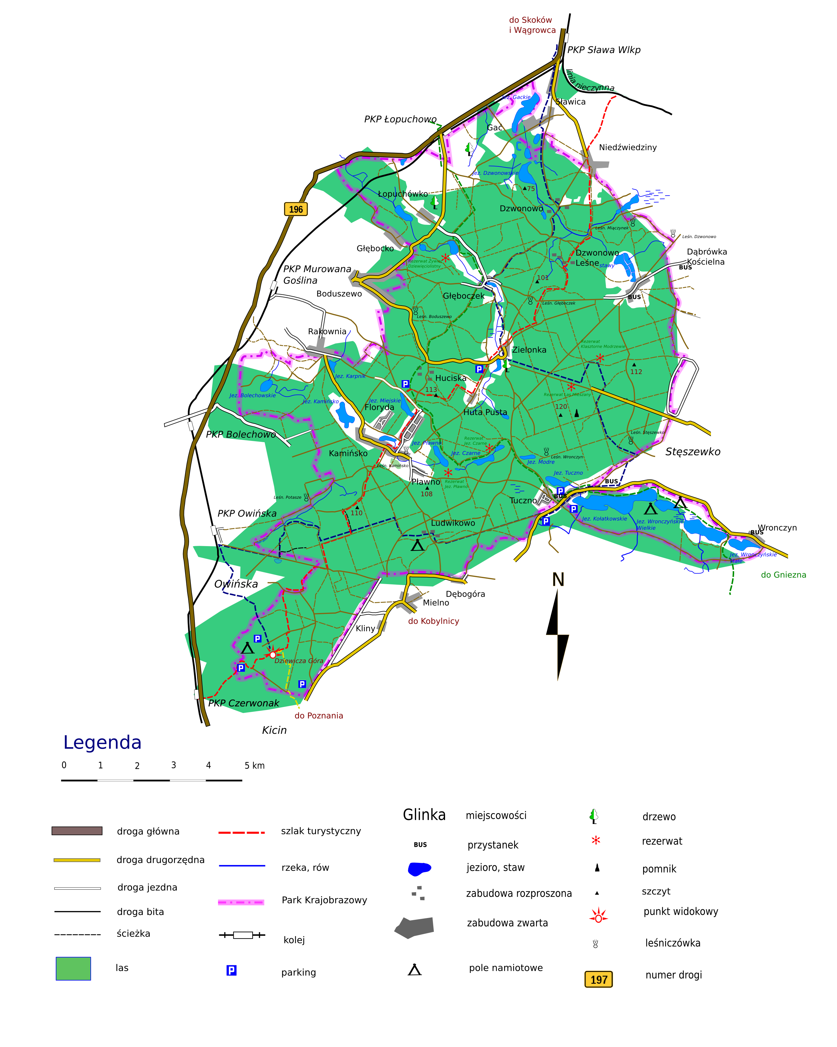 Zielonka Forest near Poznań